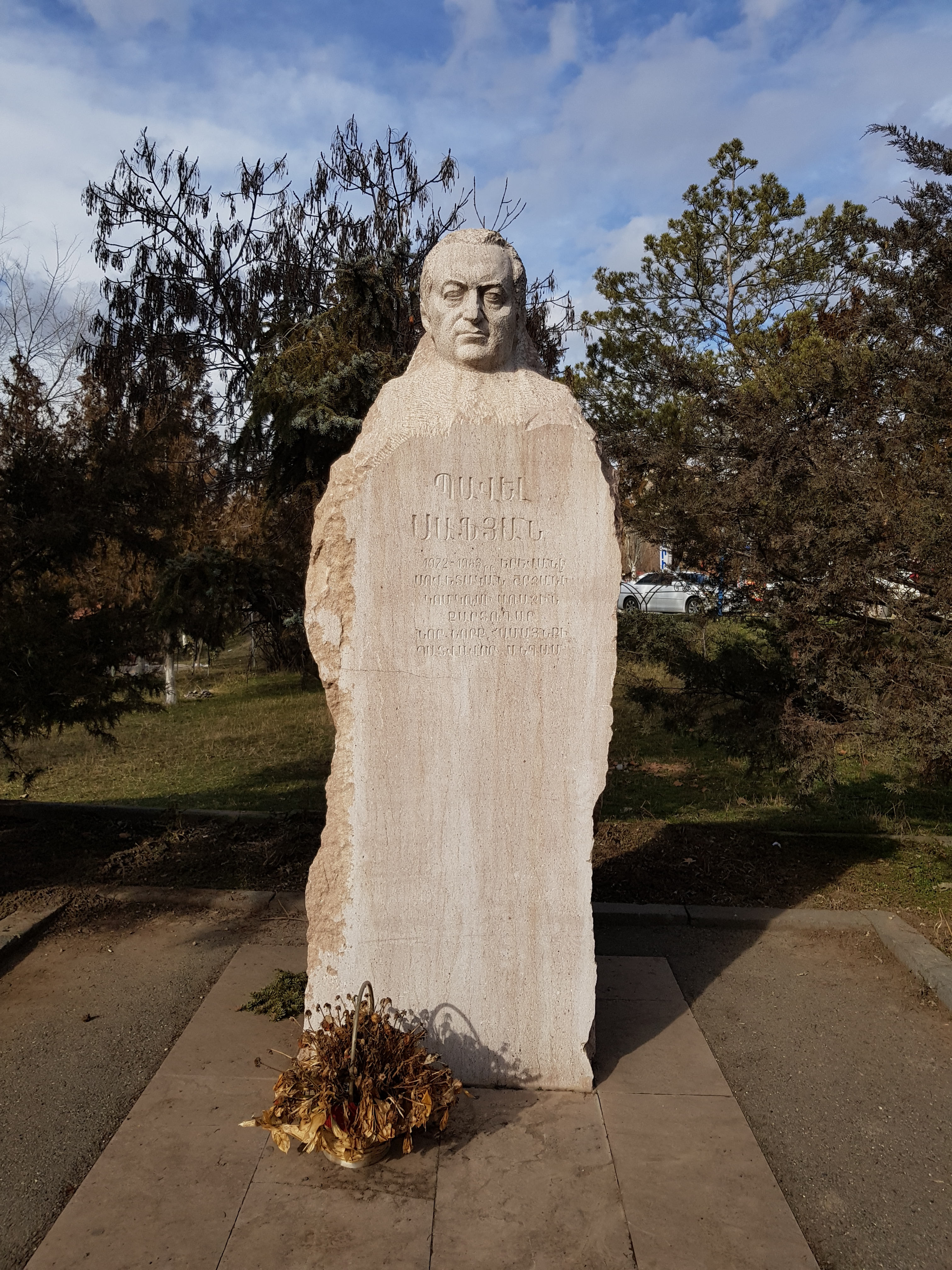 Pavel Safyan's bust in Nor Nork